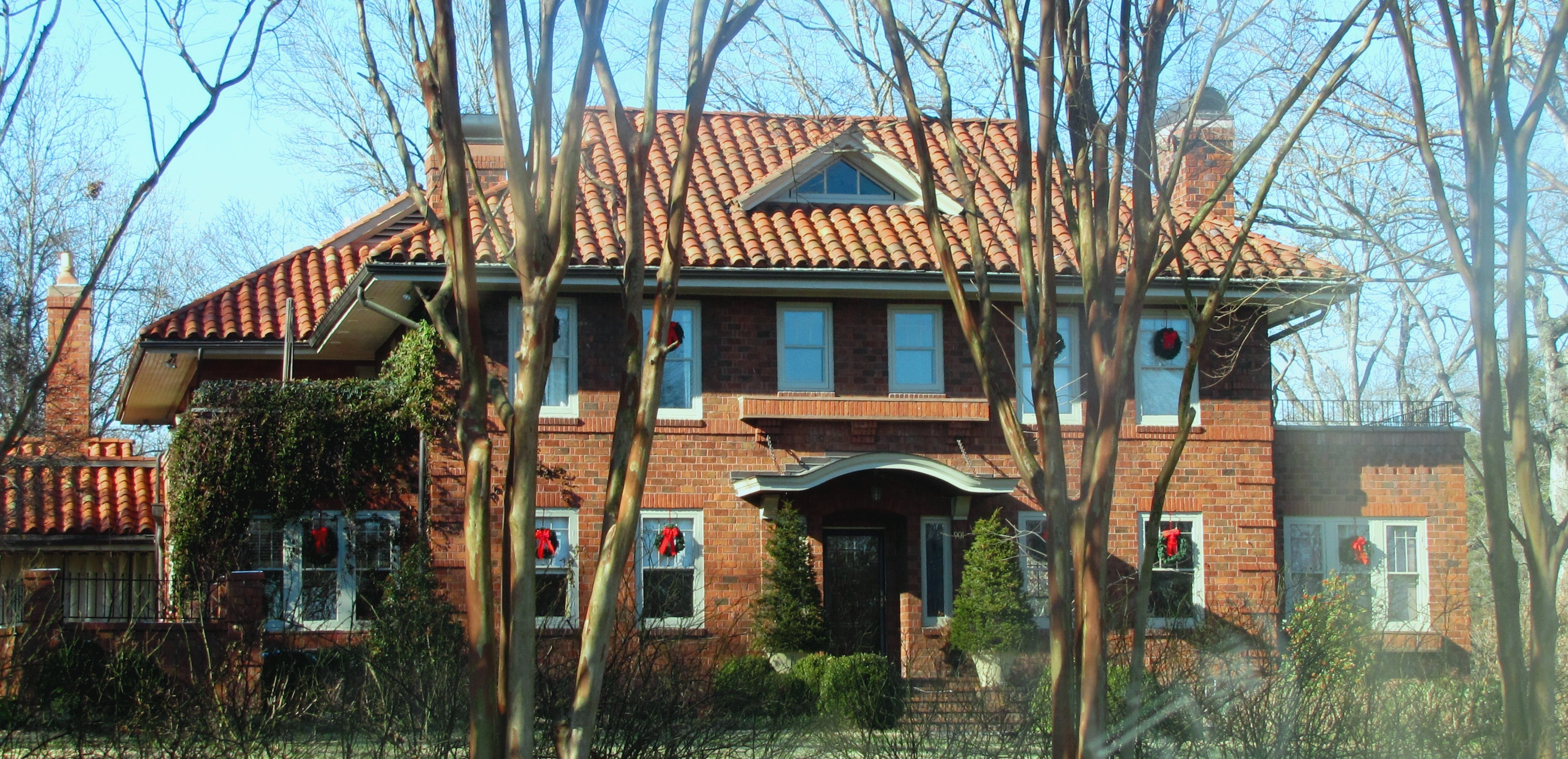 House along Scenic Drive in the Sequoyah Hills neighborhood of Knoxville, Tennessee, USA. Built in 1924, this house is now a contributing property in the Scenic Drive Area Neighborhood Conservation Overlay.